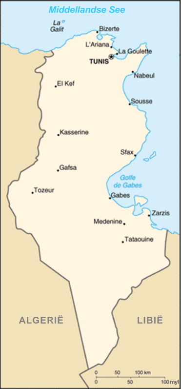 An Afrikaans map of Tunisia.